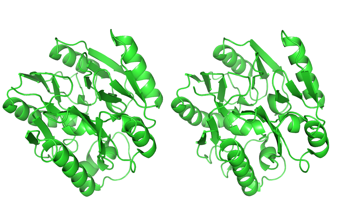 Structure of dimethylarginine dimethylaminohydrolase 1 (DDAH1)